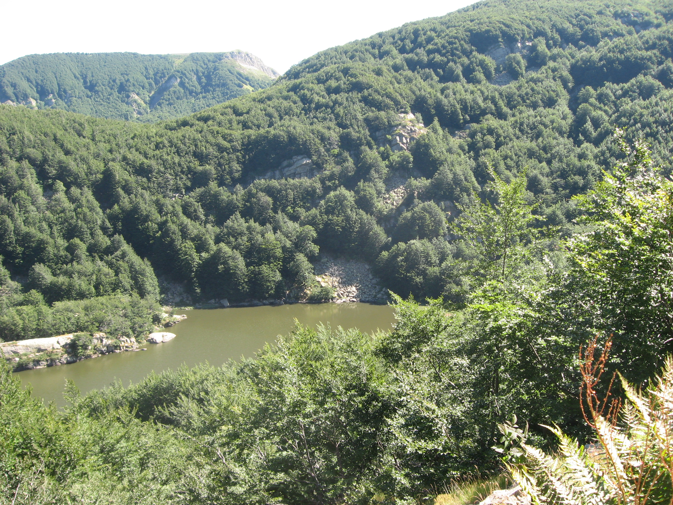 Upper Lage Gemio2